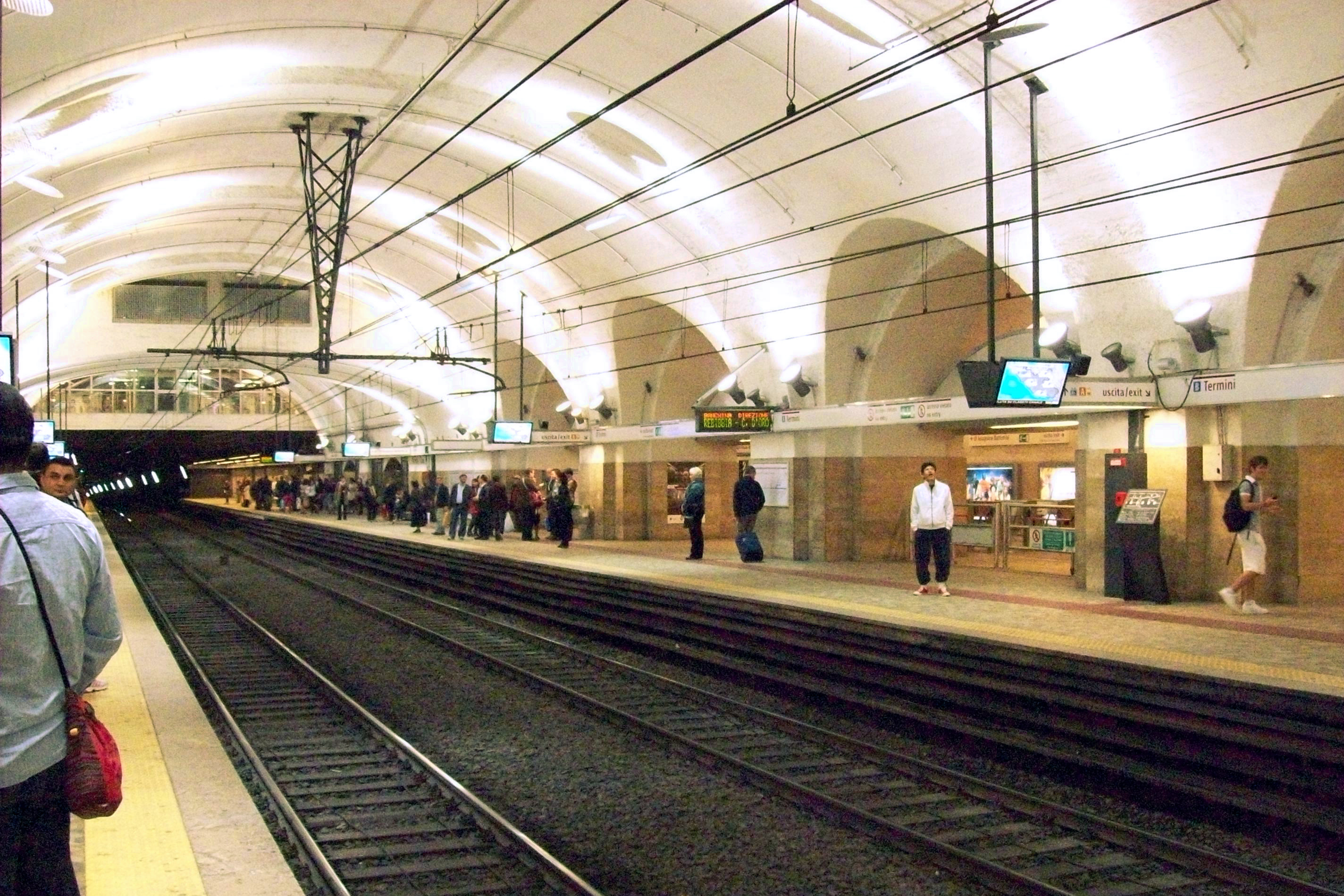 A view of the renewed Metro B station Termini, in Rome